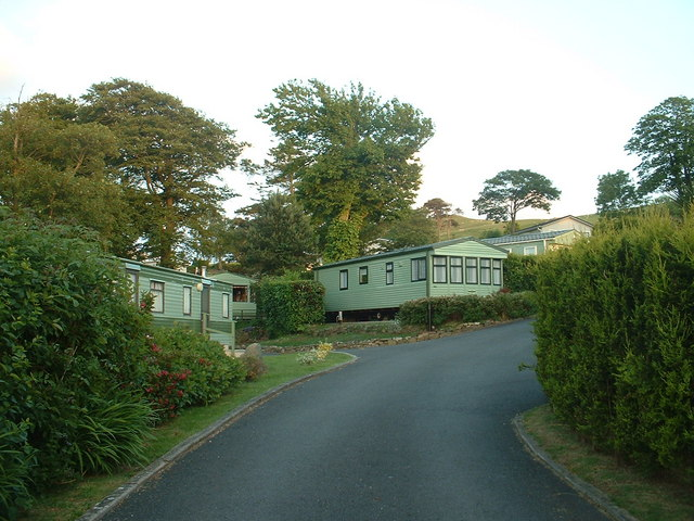 Madryn Castle Caravan Park. A nicely laid out and landscaped park, in a pleasant location.